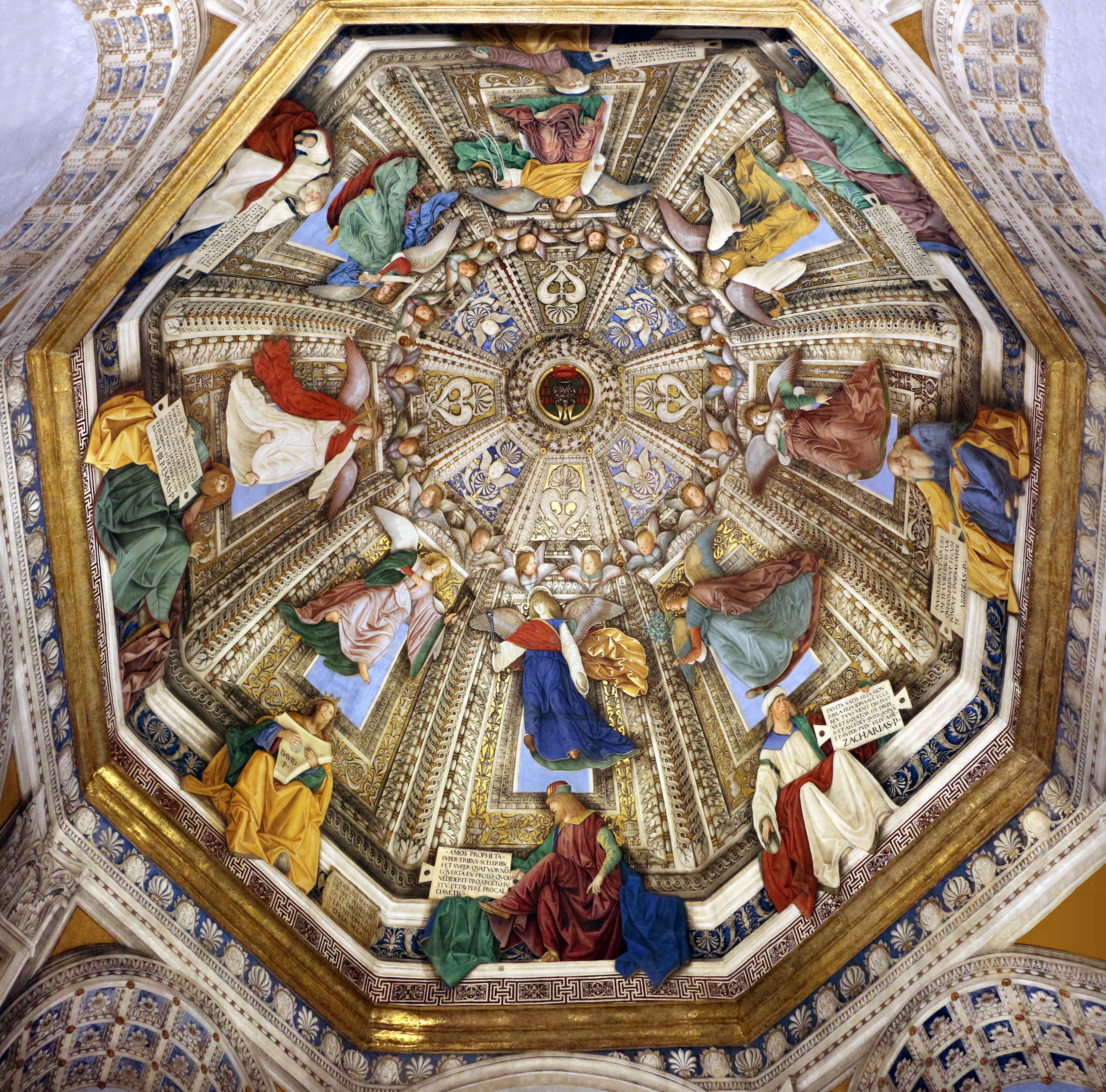 Sacristy of Saint Mark